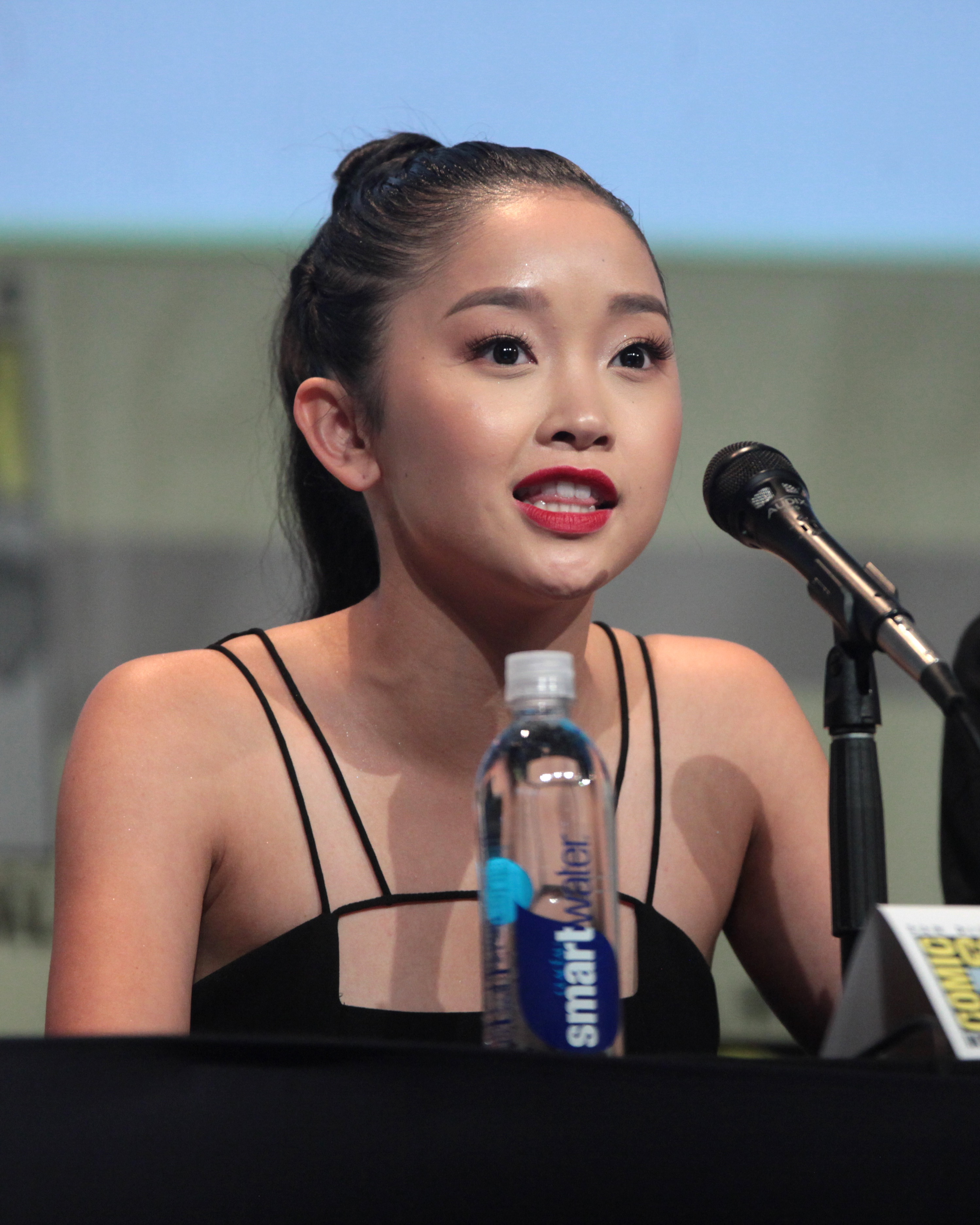 Actress Lana Condor at the San Diego Comic-Con International, July 11, 2015